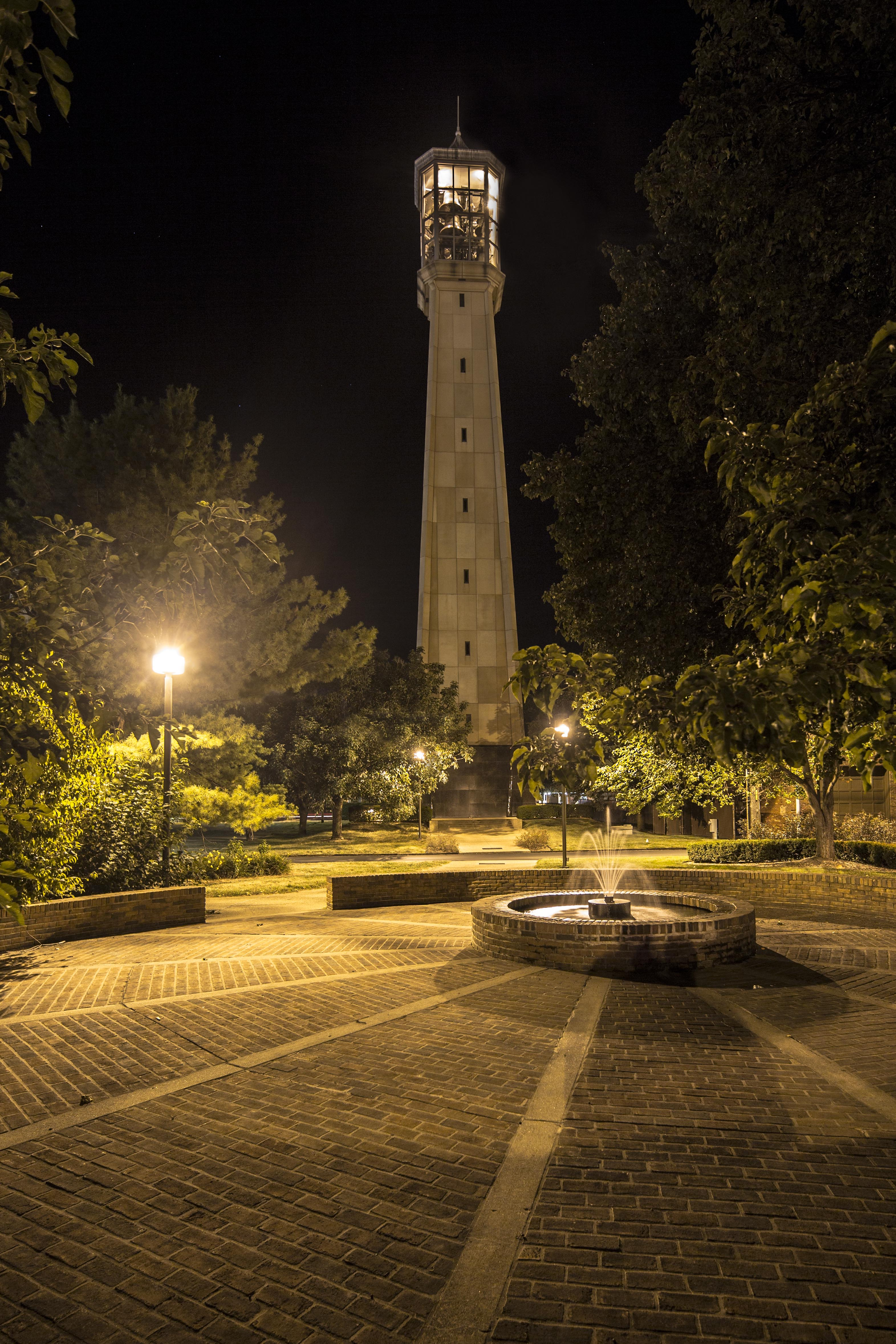 Centralia Illinois Bell Tower Summer 2012, Photo by ThePhotoRun's Jason Runyon